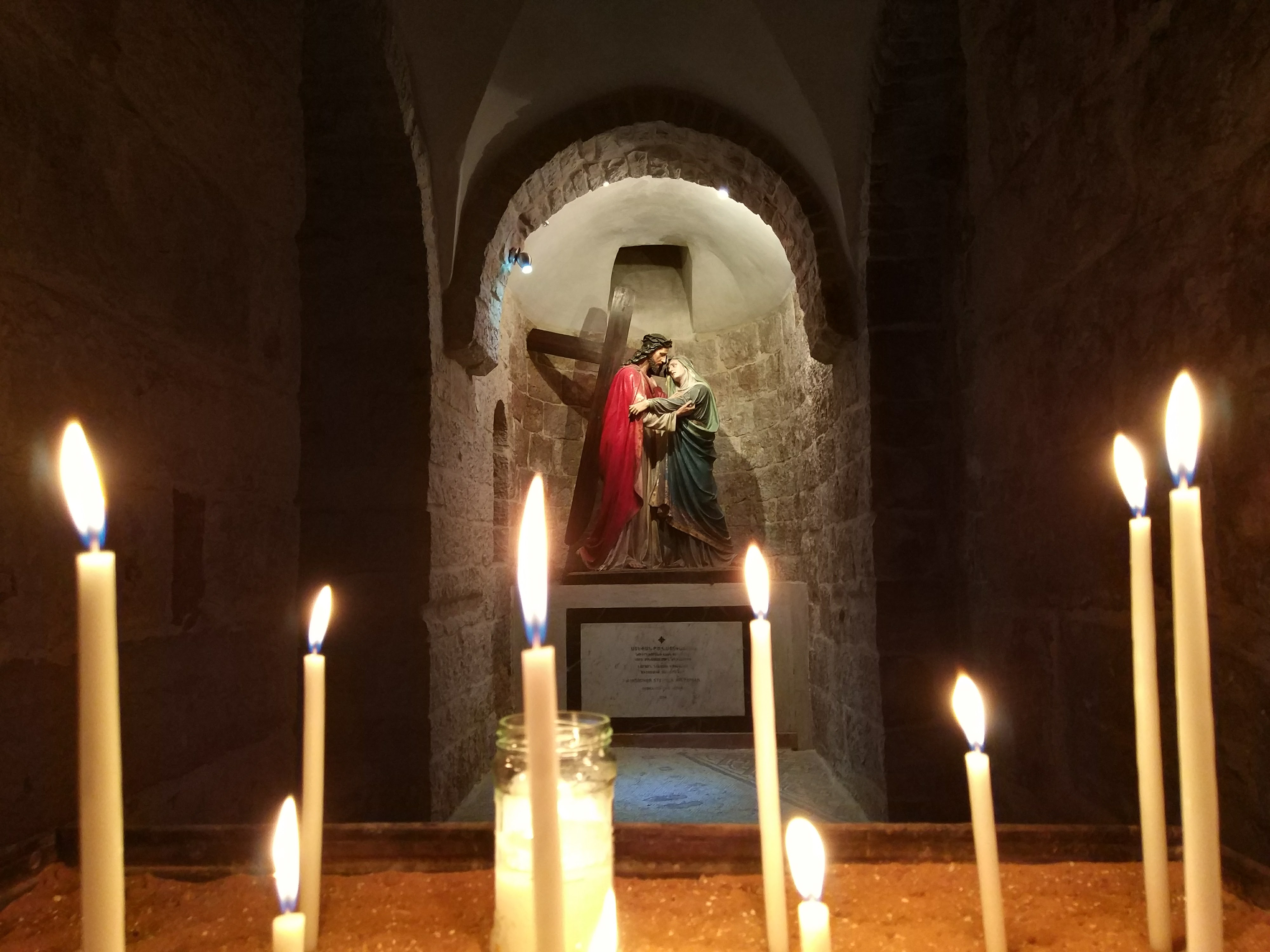 Church of Our Lady of the Spasm, Jerusalem